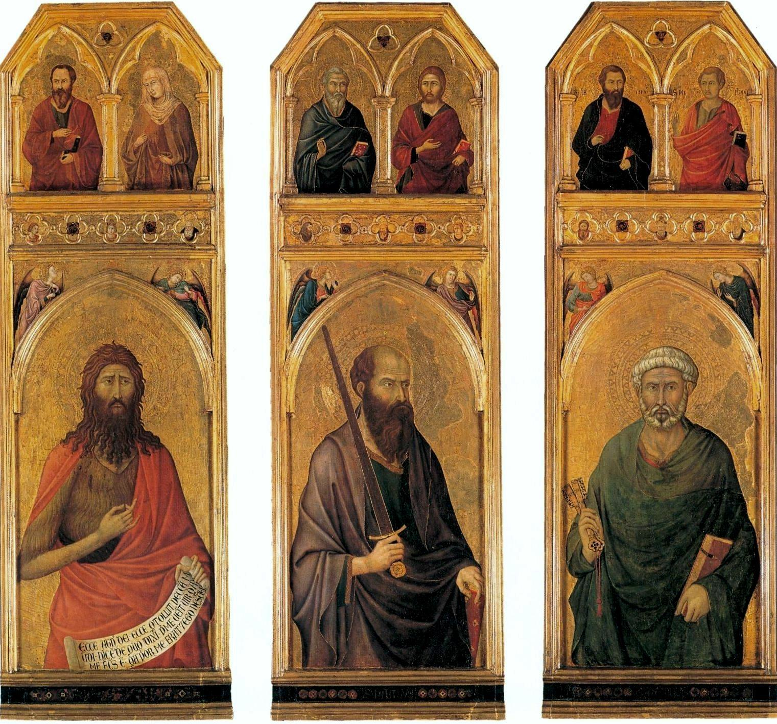 Sts. John the Baptist, Paul and Peter. Above- SS Mathias, Elisabeth of Hungary, Matthew, James the Less, James the Greater, Philip.